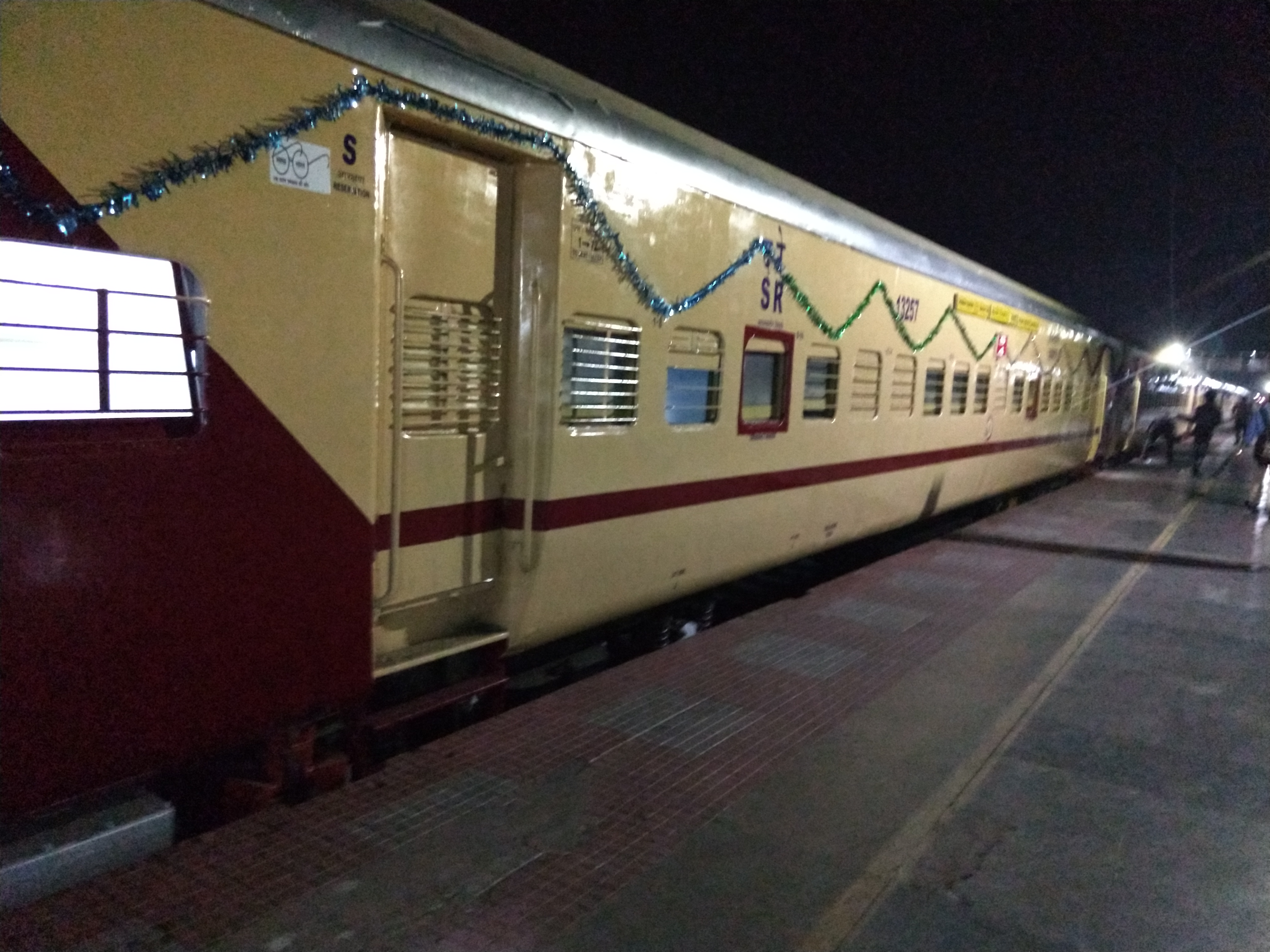 Silambu Express upgraded with new Utkrisht coach project.